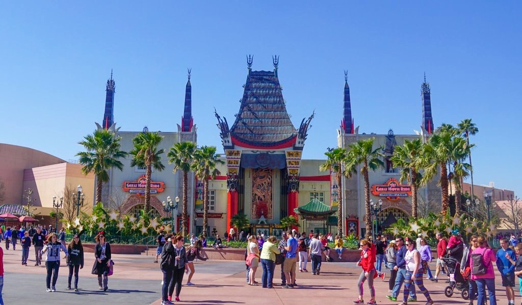 The Great Movie Ride and the TCL Chinese Theater recreation at Disney's Hollywood Studios in Walt Disney World.